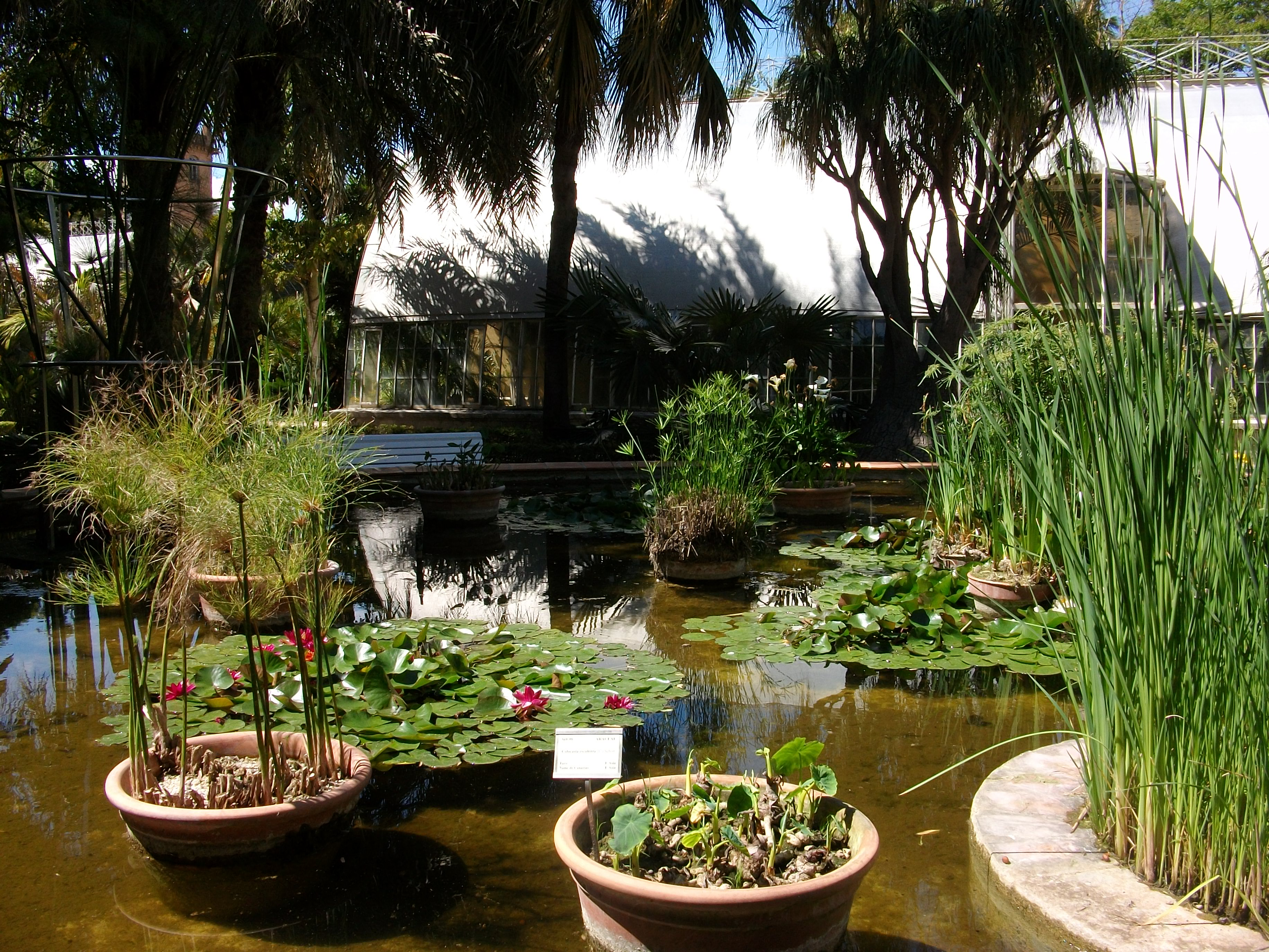 Botanical garden of Valencia